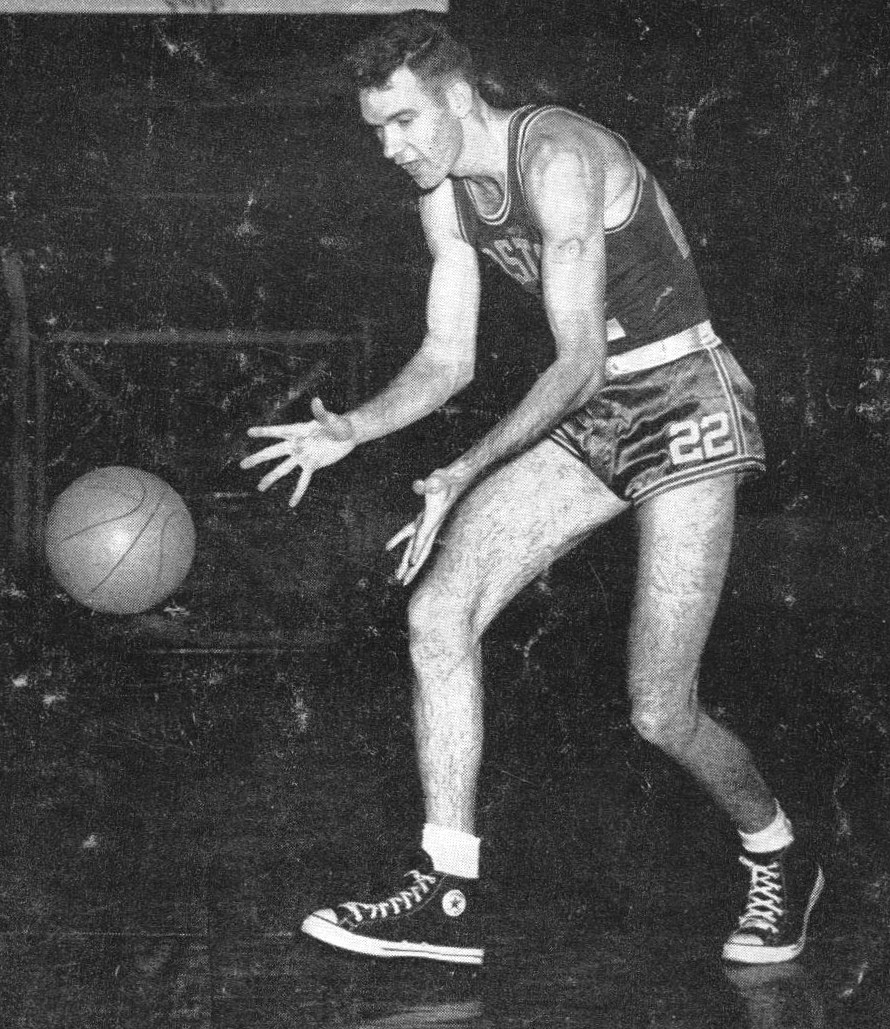 Professional basketball player Ed Macauley